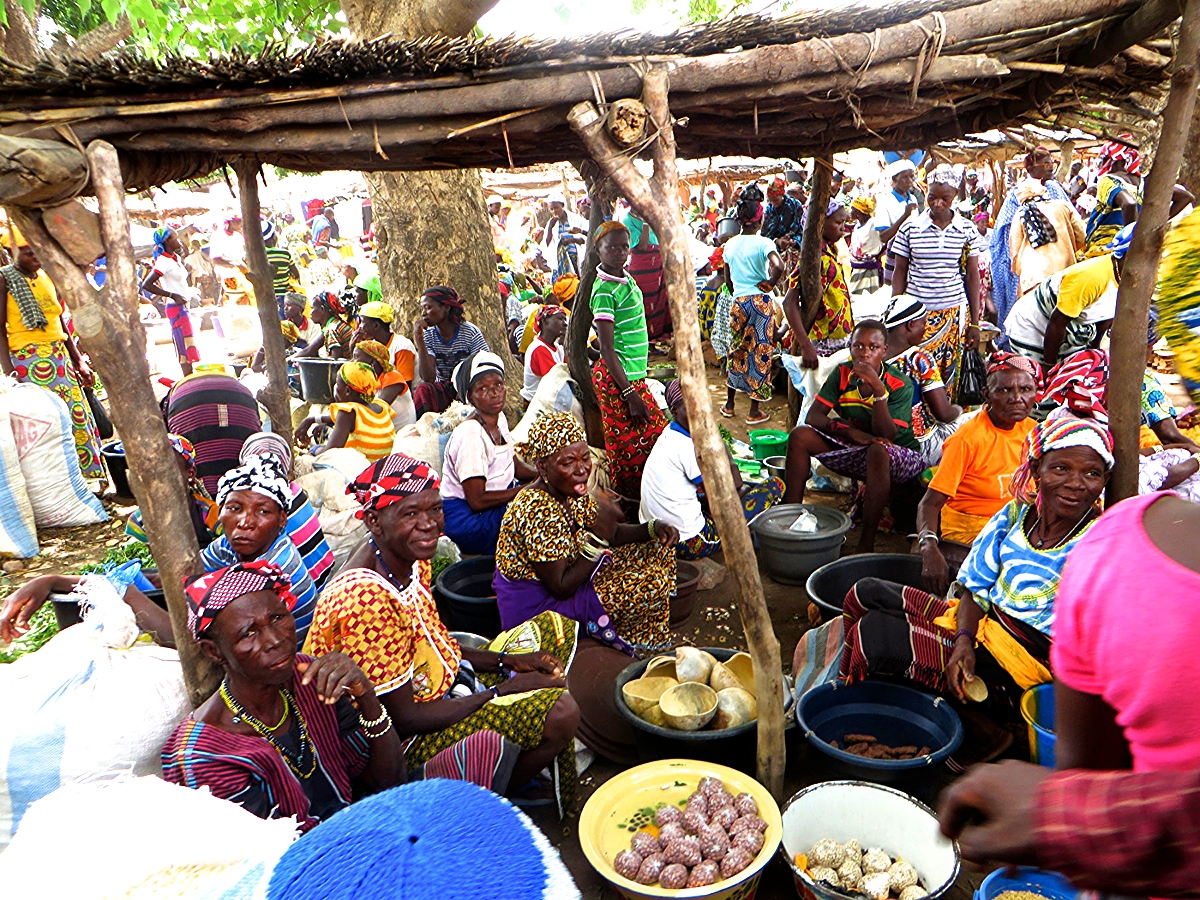 Traditional food market in Logobou, Burkina Faso.